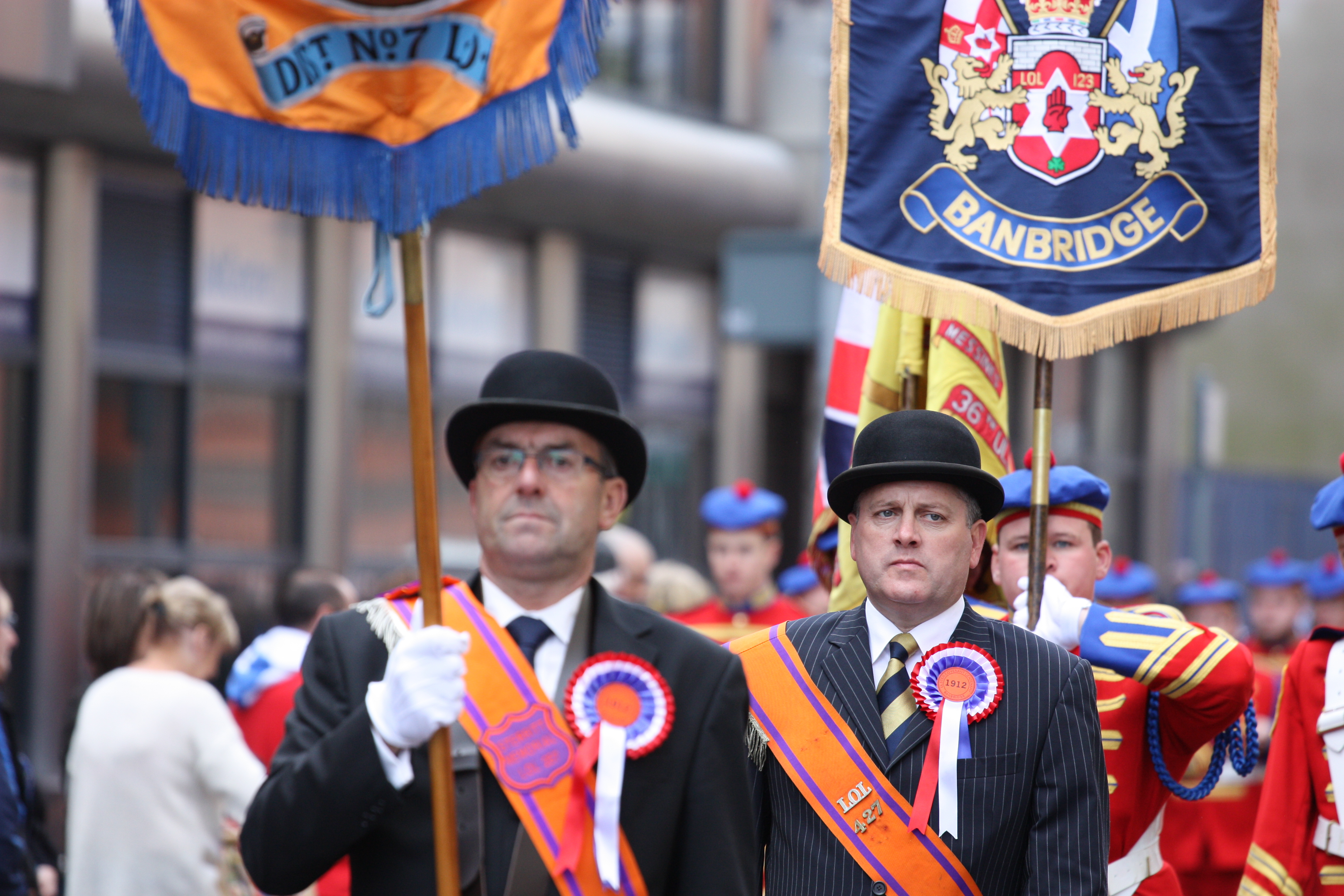 Orangemen, Ulster Covenant Commemoration Parade, Chichester Street, Belfast, Northern Ireland, September 2012